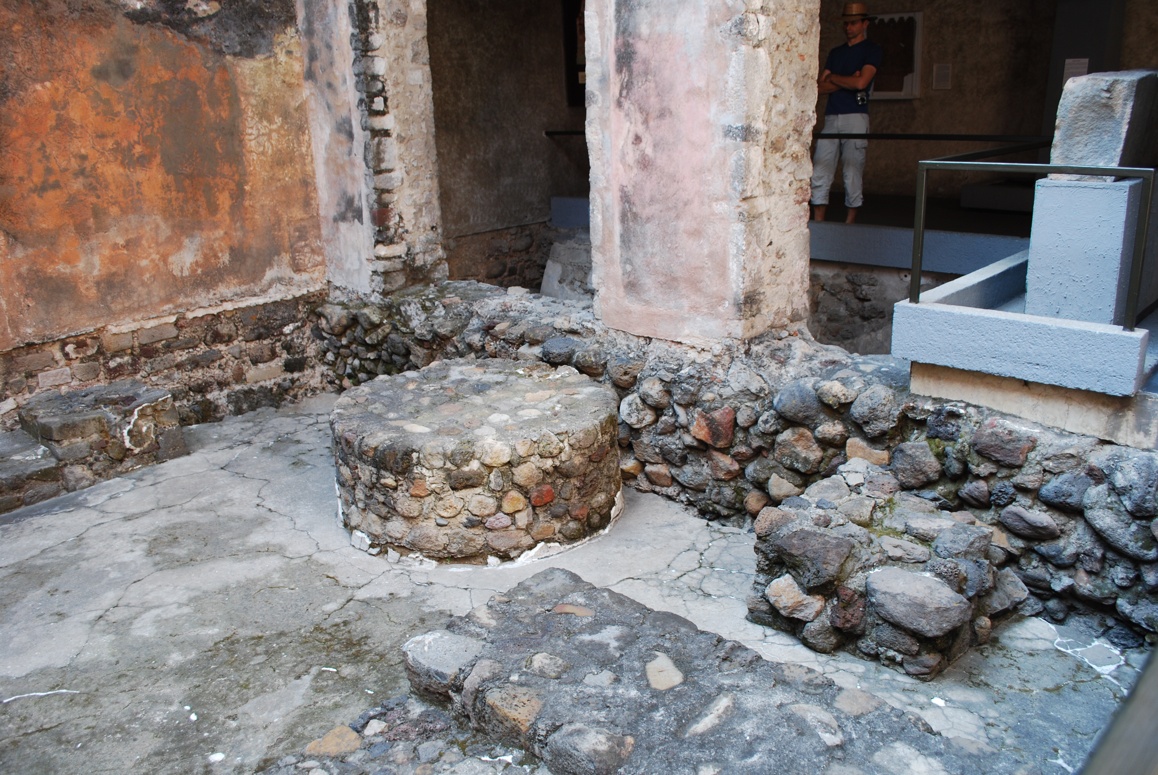 Interior courtyard of the Palace of Cortes showing remains of the former pre-Hispanic structure in Cuernavaca, Mexico